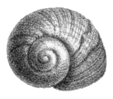 Drawing of an apical view of the shell of Amuropaludina chloantha.